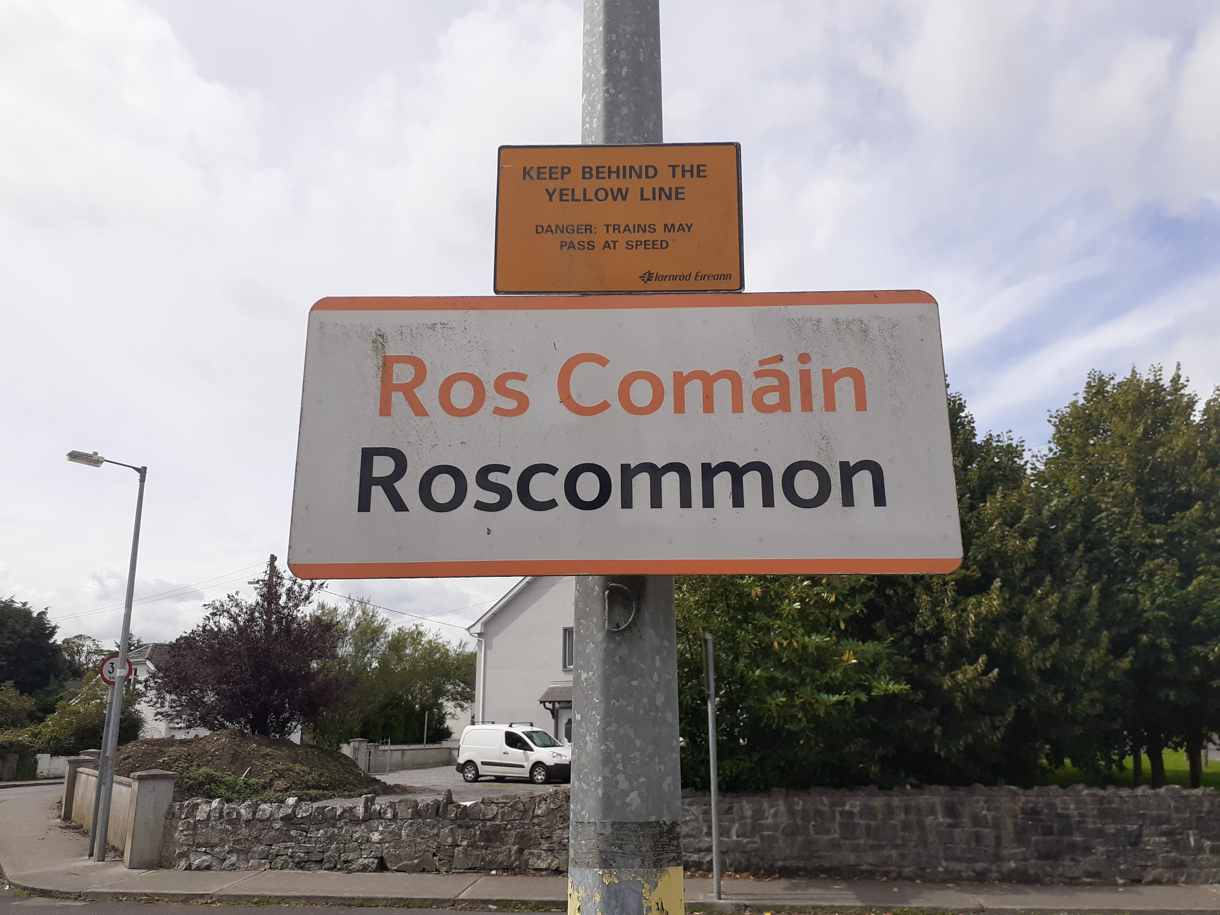 Roscommon train station sign.